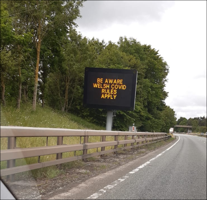 A road sign on the A55 on the Welsh side of the Wales-England border, near Queensferry warning: 'BE AWARE: WELSH COVID RULES APPLY'. Wales had different rules and laws to England, and these warnings referred to the fact that no one from England was allowed to visit wales unless the journey was 'essential'. Fines of up to £1,000 were imposed on people visiting their 2nd homes, beaches or mountain walking, with Police blocks on the border for months on end.